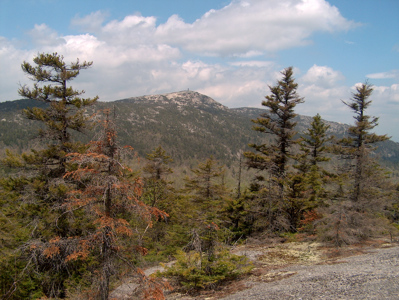 Mount Cardigan in western New Hampshire. Photo by Ken Gallager, May 2004.